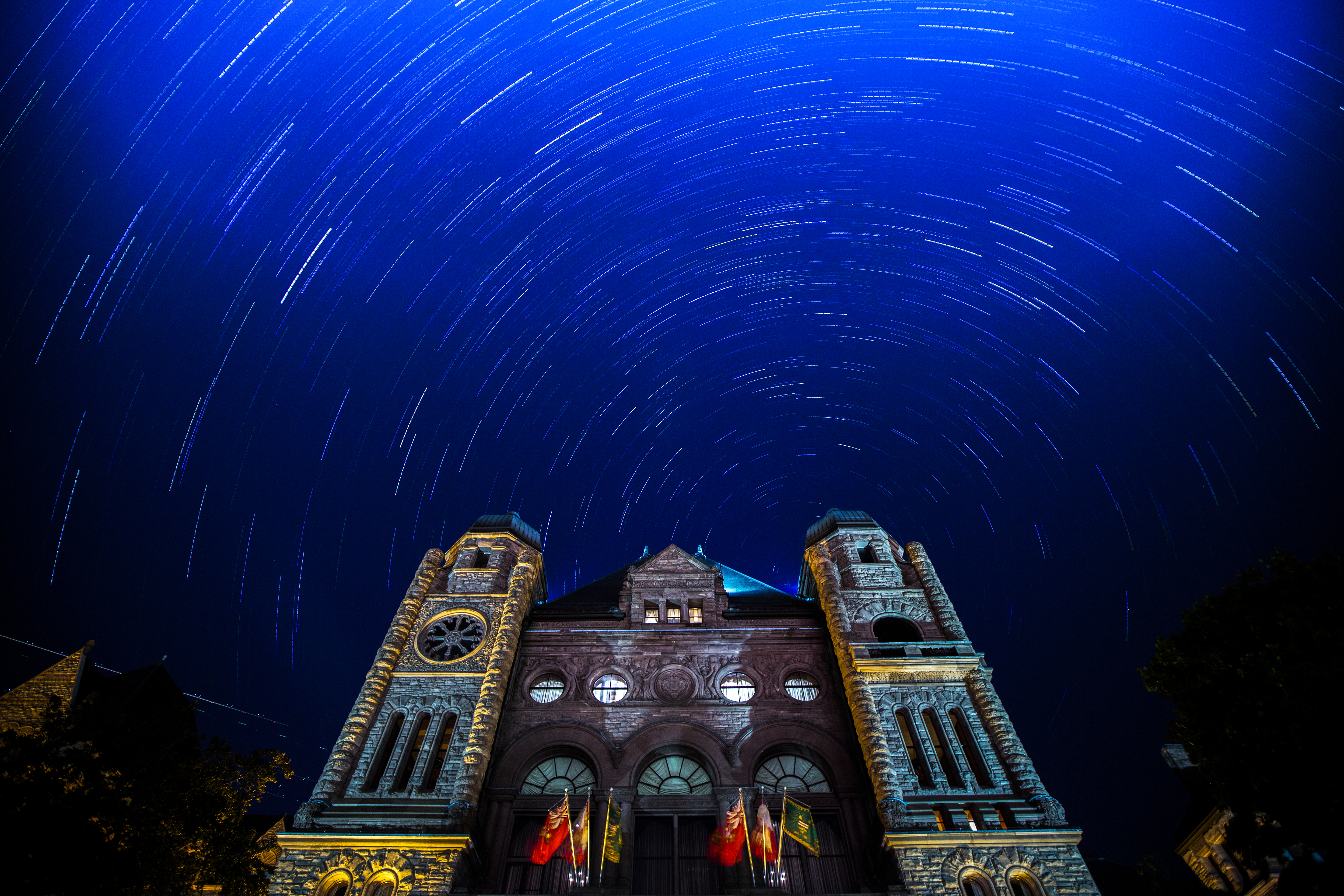 Star Trails over Ontario Legislative Building